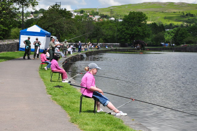 School Fishing Competition, Cyfartha Castle Lake - Merthyr Tydfil The Merthyr Tydfil Angling Association hosts an inter-school fishing competition. Here pupils from one school compete to land the biggest fish in order for the winner to go on into the next round.